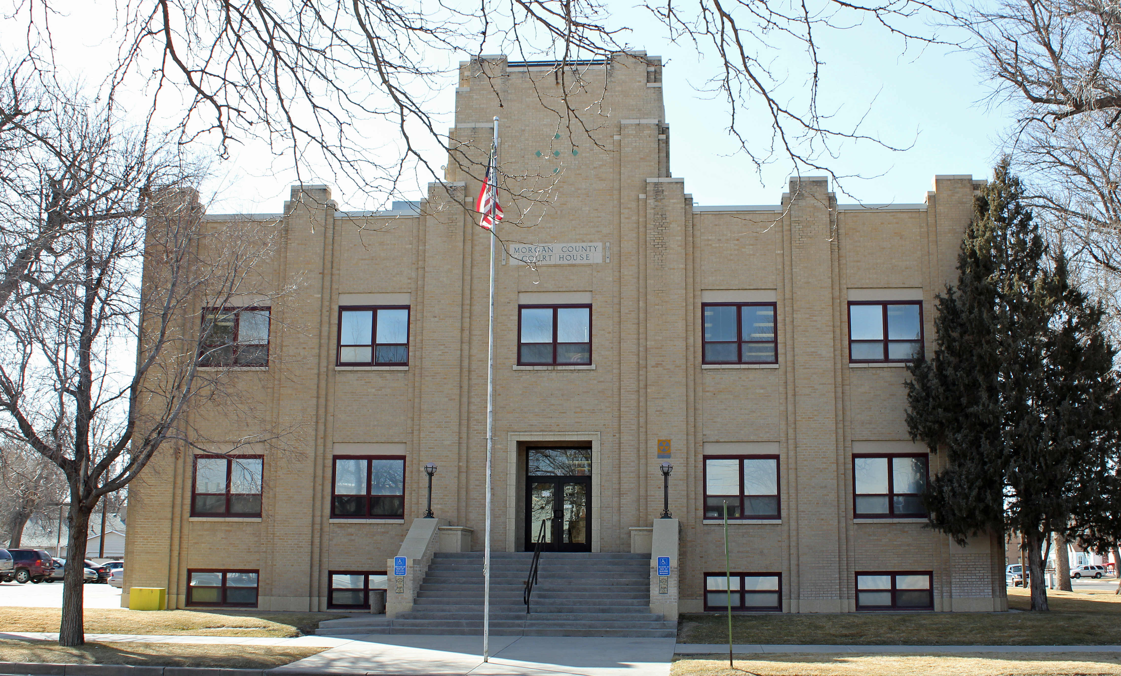 The Morgan County Courthouse and Jail, located at 225 Ensign Street in Fort Morgan, Colorado. The property is listed on the National Register of Historic Places.